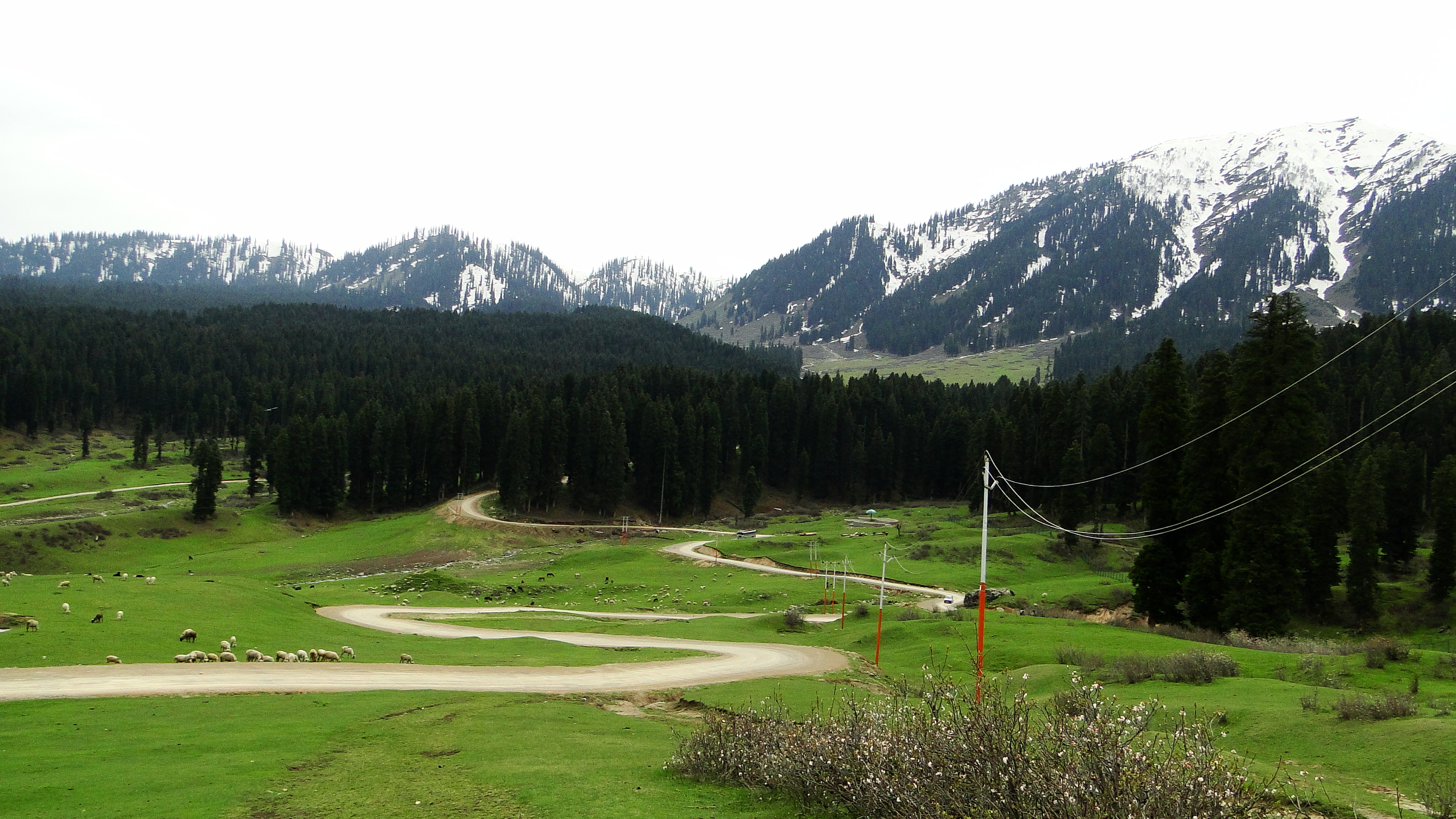 Doodhpathri. Nature, scenery in the Himalayas, southwest Jammu and Kashmir, India, May 2014